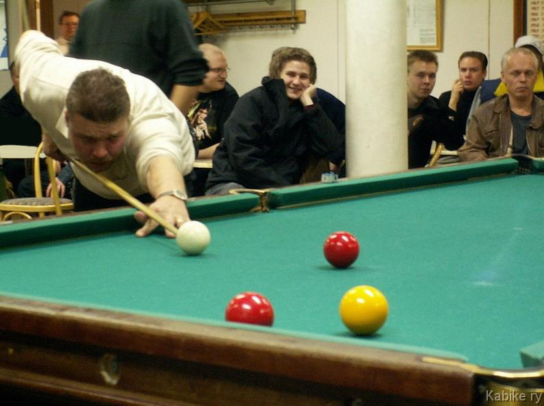 Photo by KABIKE ry.